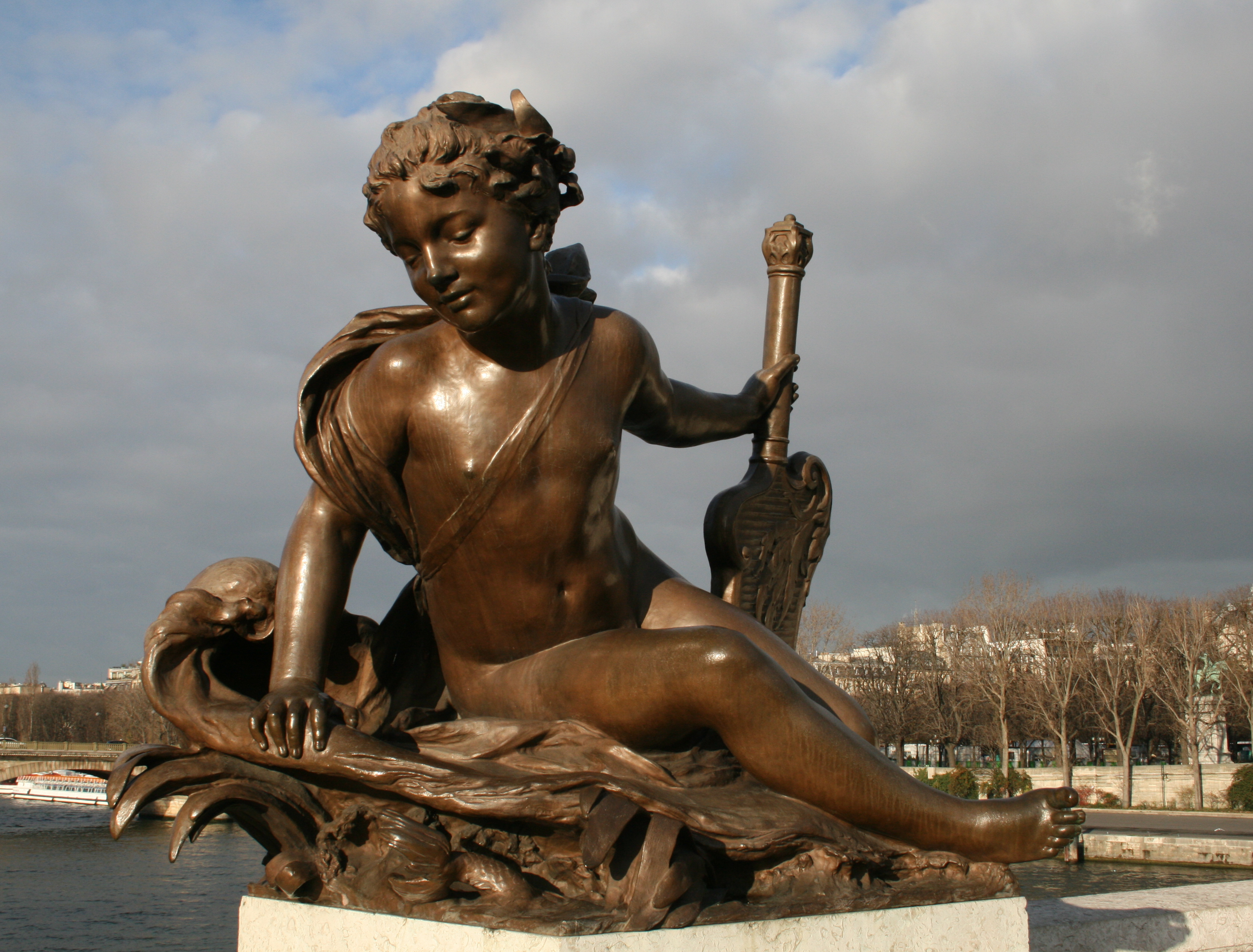 "Néréide" by André Paul Arthur Massoulle - statue adorning the south side of the Alexandre III bridge (downstream side) in Paris.